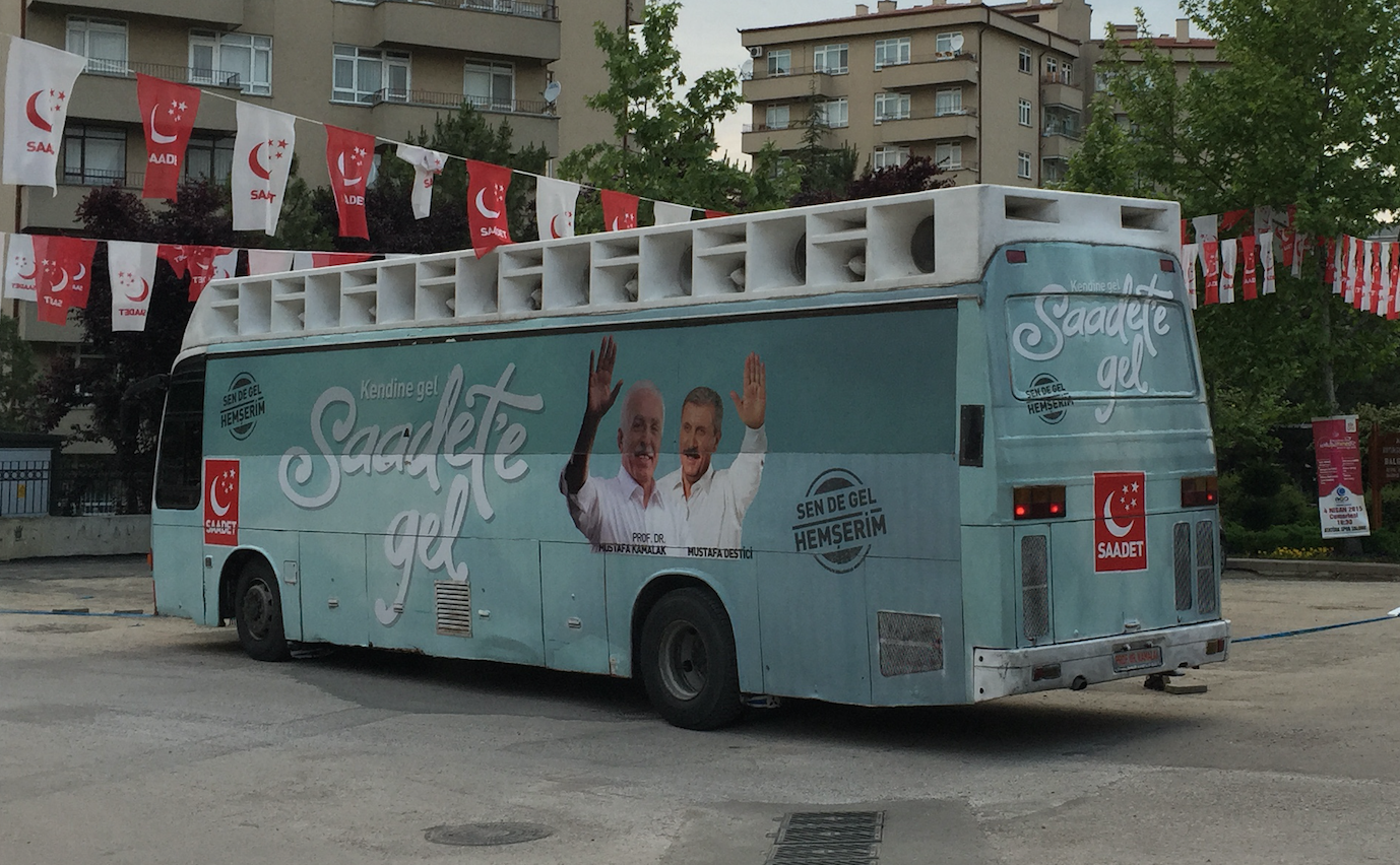 Felicity Party bus during the 2015 Turkish general election campaign